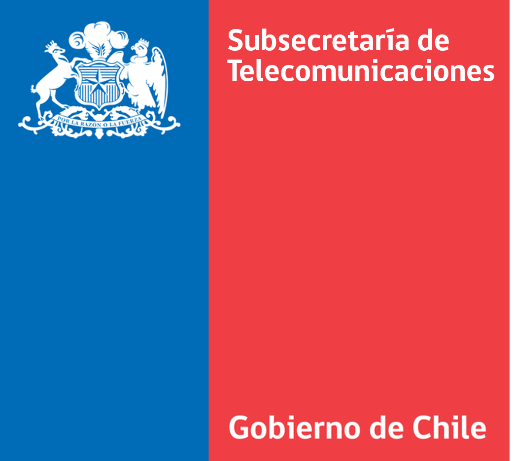 Logo of the Department of Telecommunications.